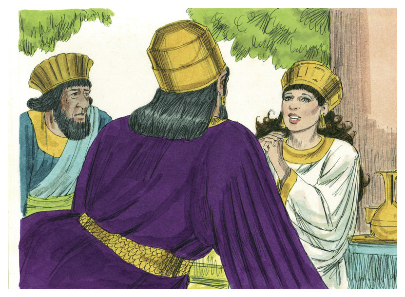 Biblical illustration of Book of Esther Chapter 7